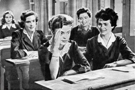 Annamaria Sandri, Christine Carère, Giovanna Turi, Roberta Primavera e Giulia Rubini in "Terza liceo" (Emmer, 1954)